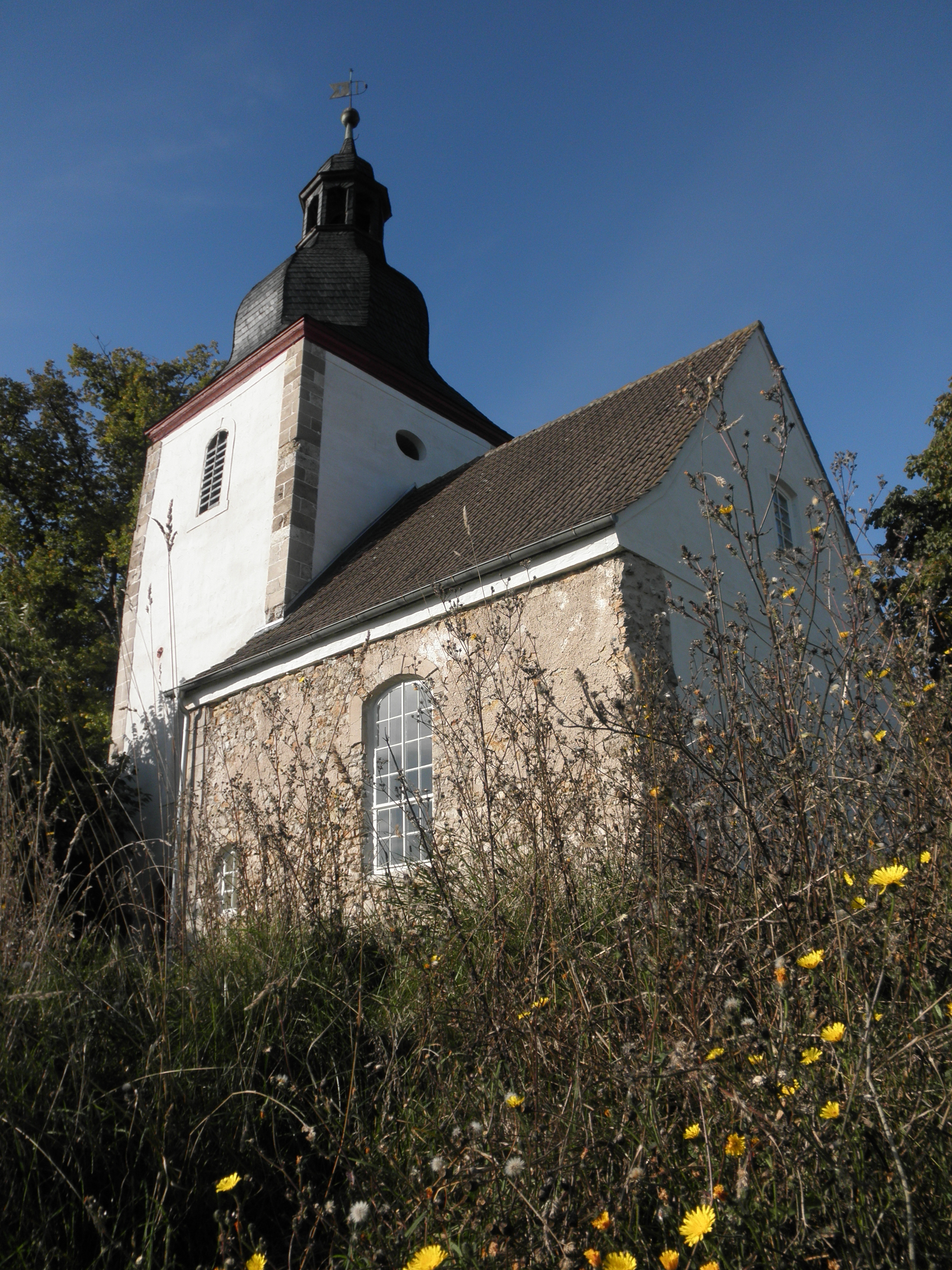 Church in Hörningen (Nordhausen) in Thuringia